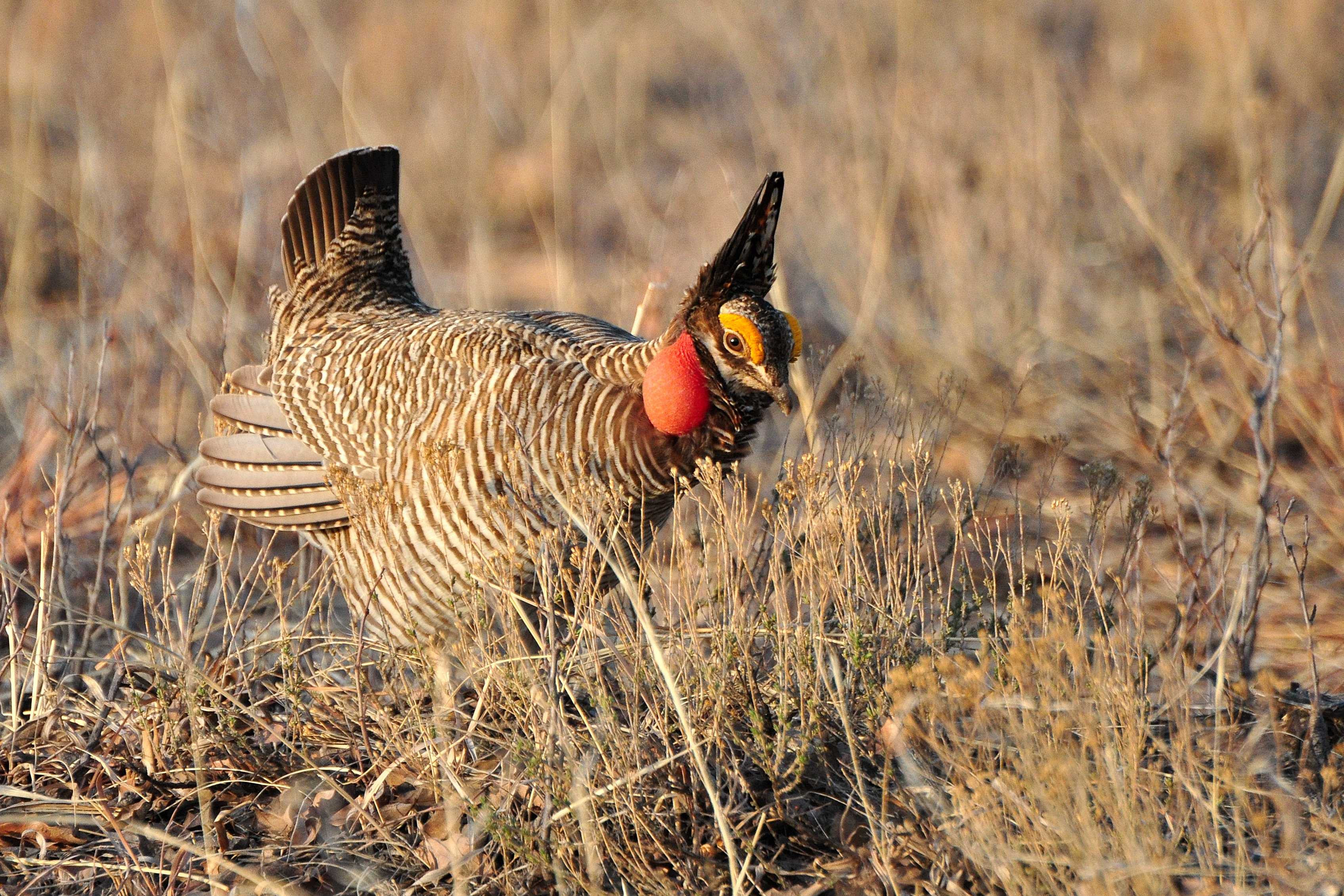 A Lesser Prairie Chicken (male) in New Mexico